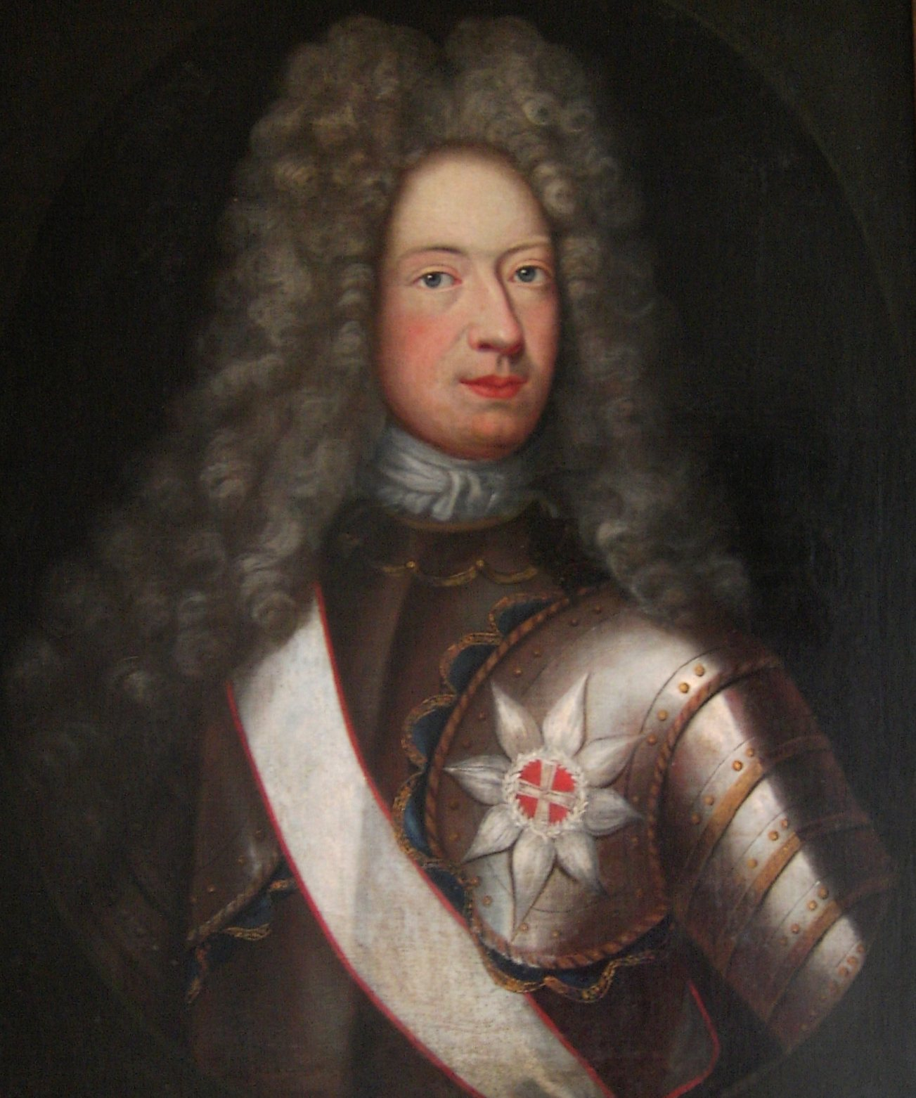 Portrait Adolph Magnus Freiherr von Hoym (1668-1723), former husband of the Countess Cosel.